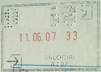 Passport stamp from Saločiai, Lithuania.